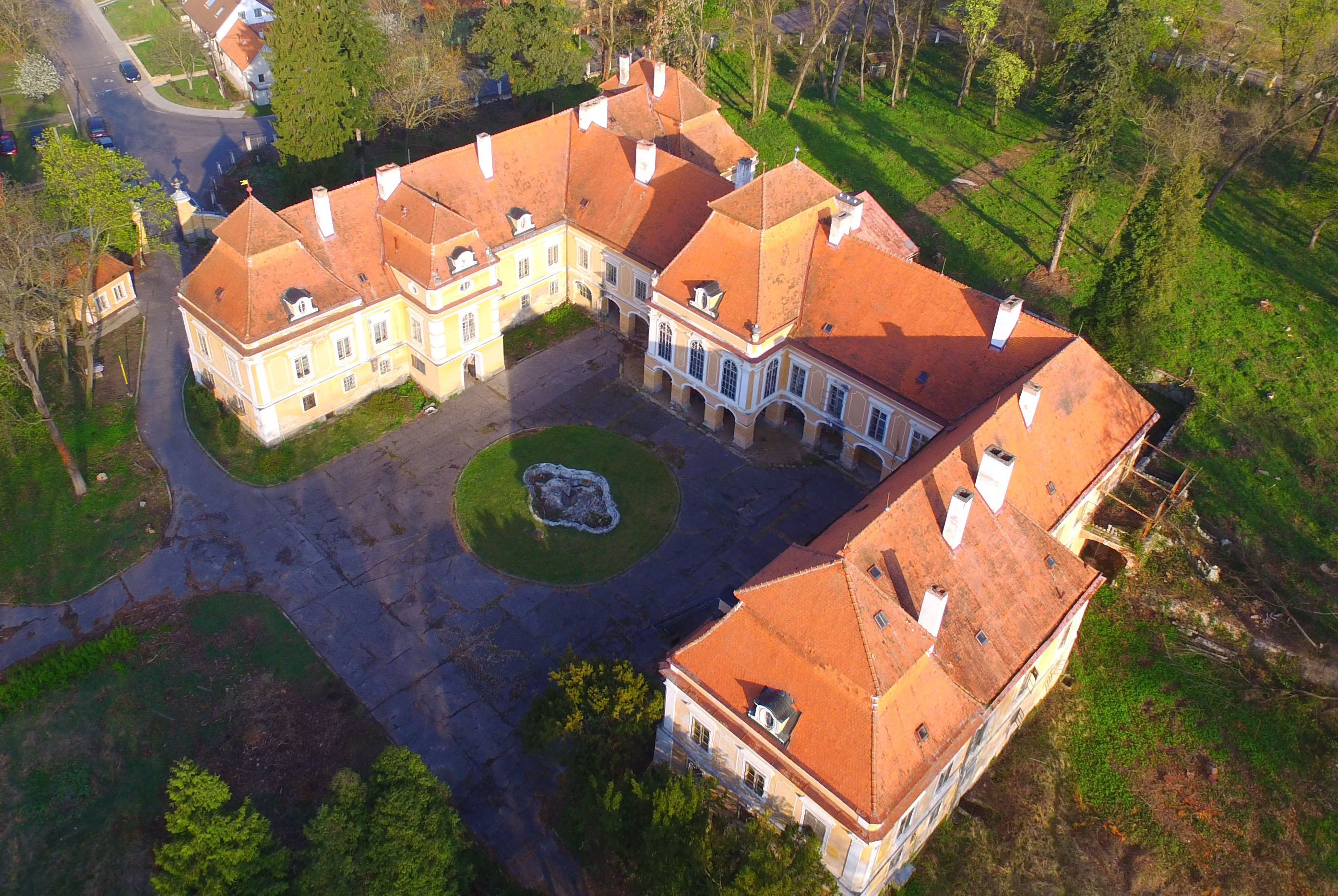 DCIM\102MEDIA\DJI_0002.JPG